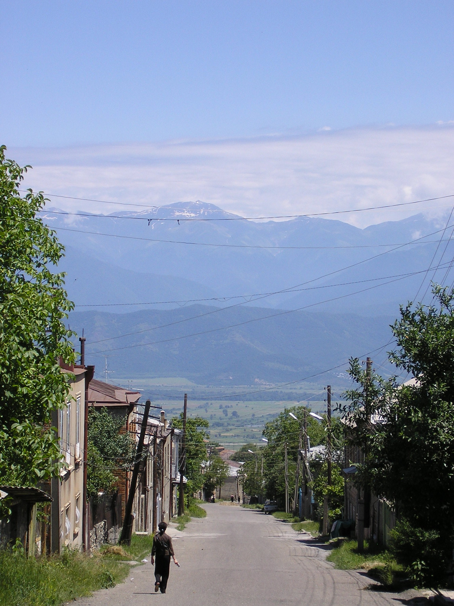 9_April_Street. Telavi